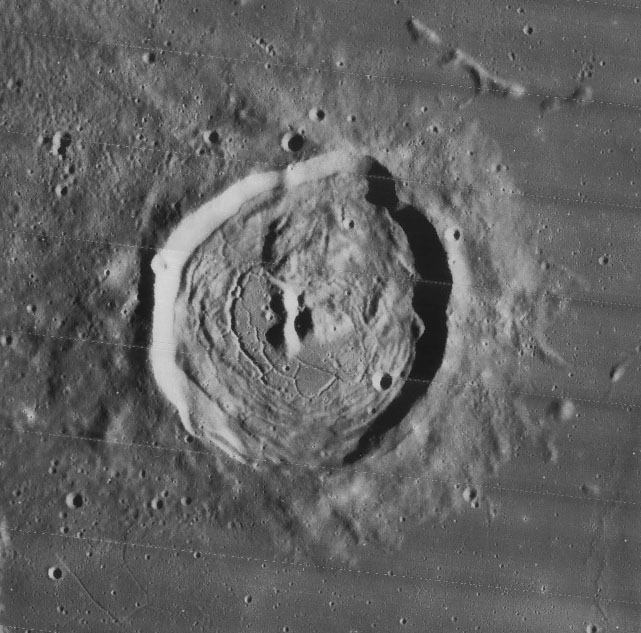 Moon crater Briggs. Lunar Orbiter IV-169H. High resolution scan from USGS Lunar Orbiter Digitization Project remapped to north-up aerial view by LTVT.